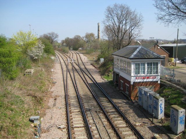 Cricklewood: Dudding Hill Junction and signalbox